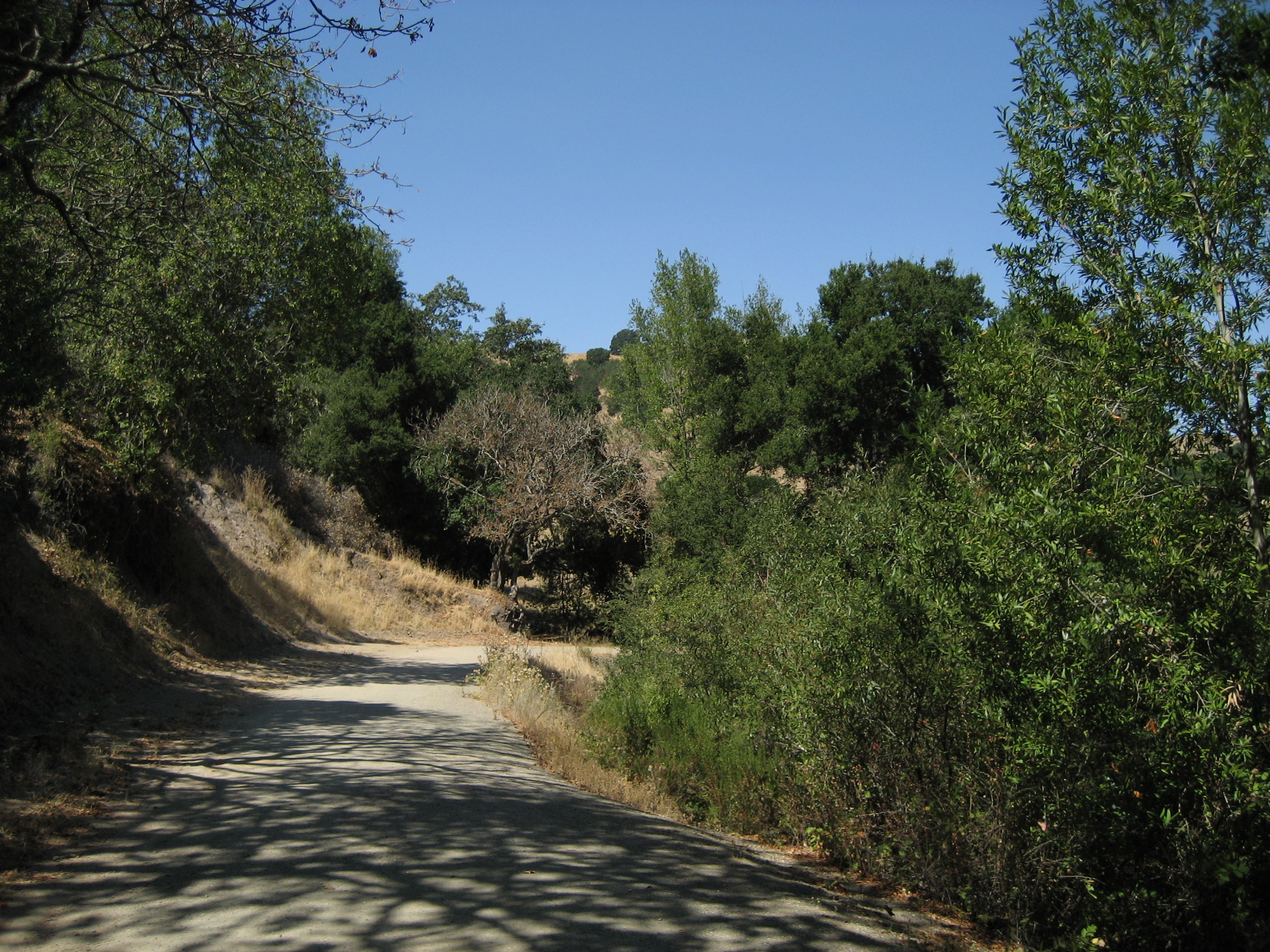 The View from Old Briones Trail at Briones Regional Park. In the Category:East Bay Regional Parks District, San Francisco Bay Area. Contra Costa County, California.